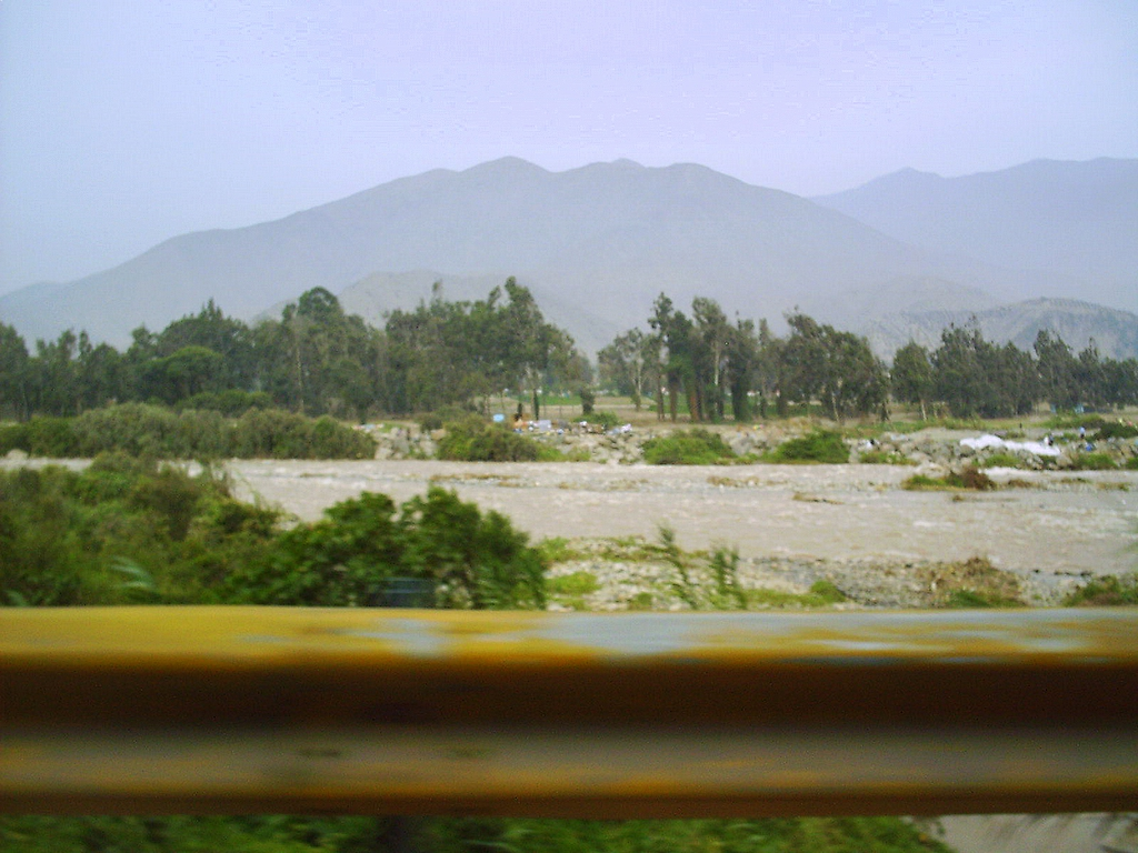 This picture was taken by me on april 09, 2006 with a Vivitar camera